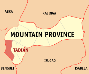 Map of Mountain Province showing the location of Tadian